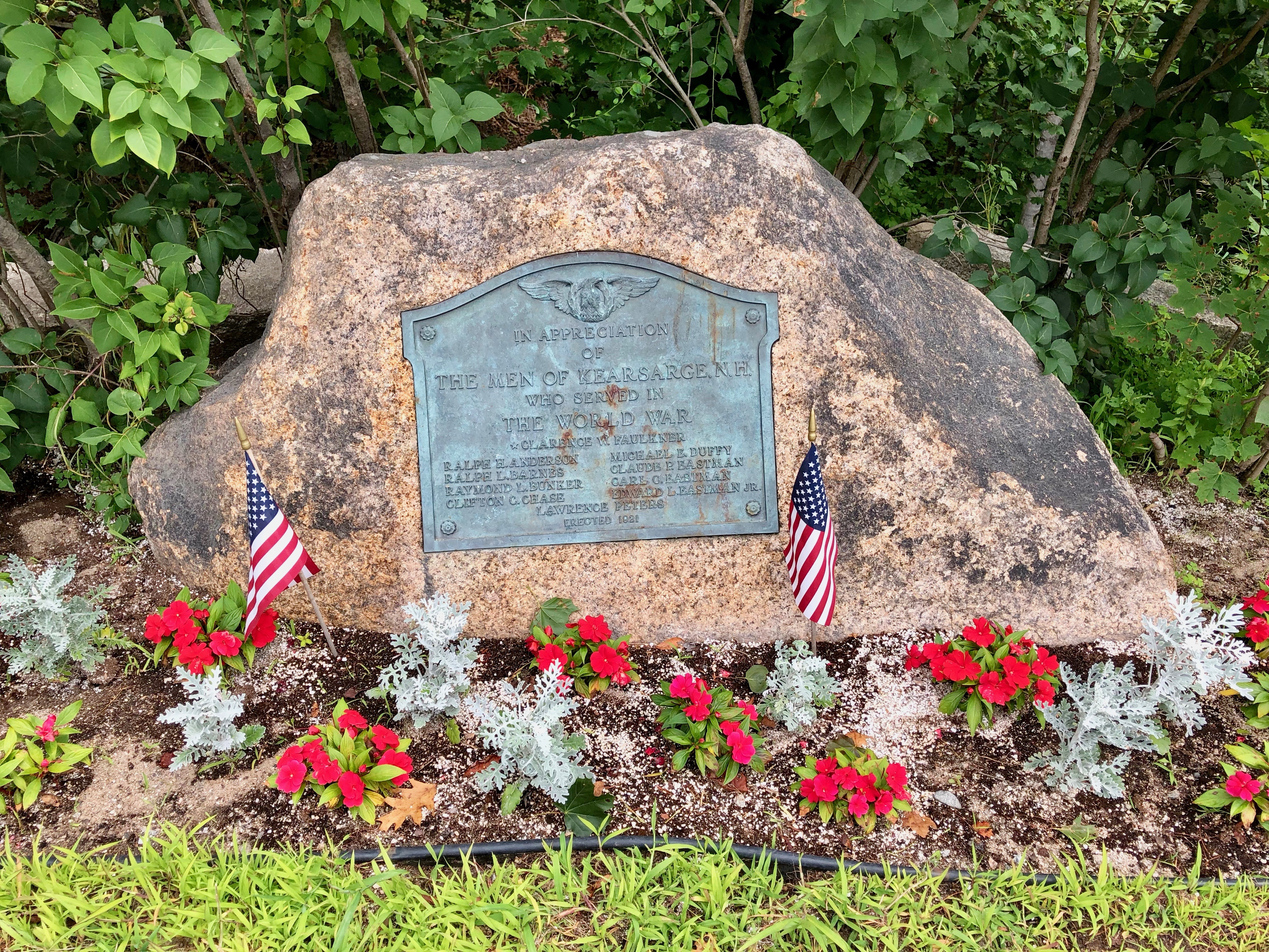 World War I memorial, Kearsarge, New Hampshire